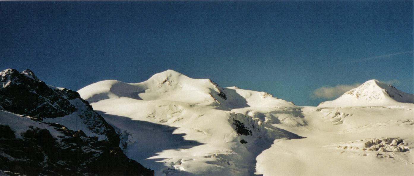 The Wildspitze in the Austrian Alps as seen from the Mittelbergjoch.From left to right:Point 3677 m, Wildspitze North summit, Point 3686 m, Mitterkarjoch, Hinterer Brochkogel. Wildspitze South summit 3768 m not to see